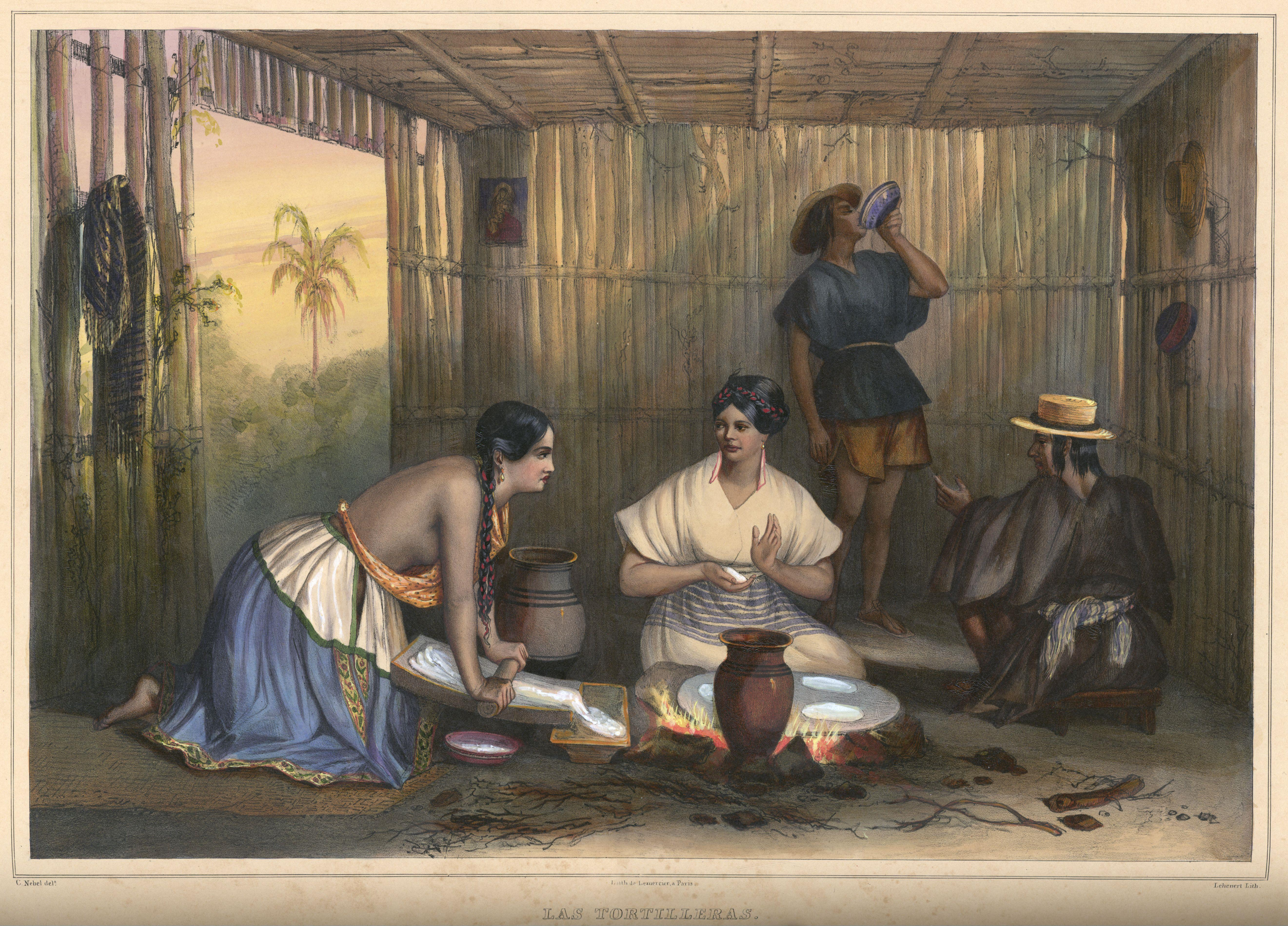 "Las Tortilleras": women making tortillas, early 19th century Mexico. Hand-colored lithograph. Original size between neat lines: 43.6×30 cm.